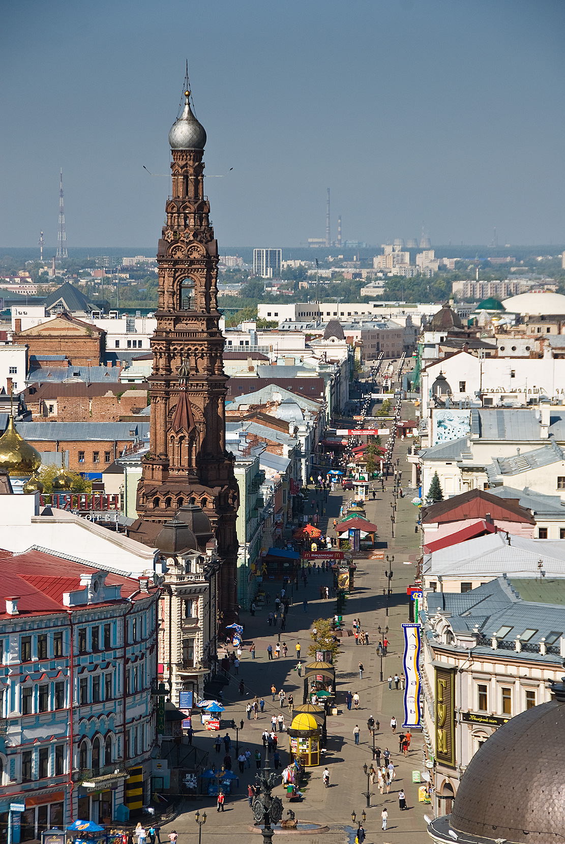 Baumana street in Kazan, Russia